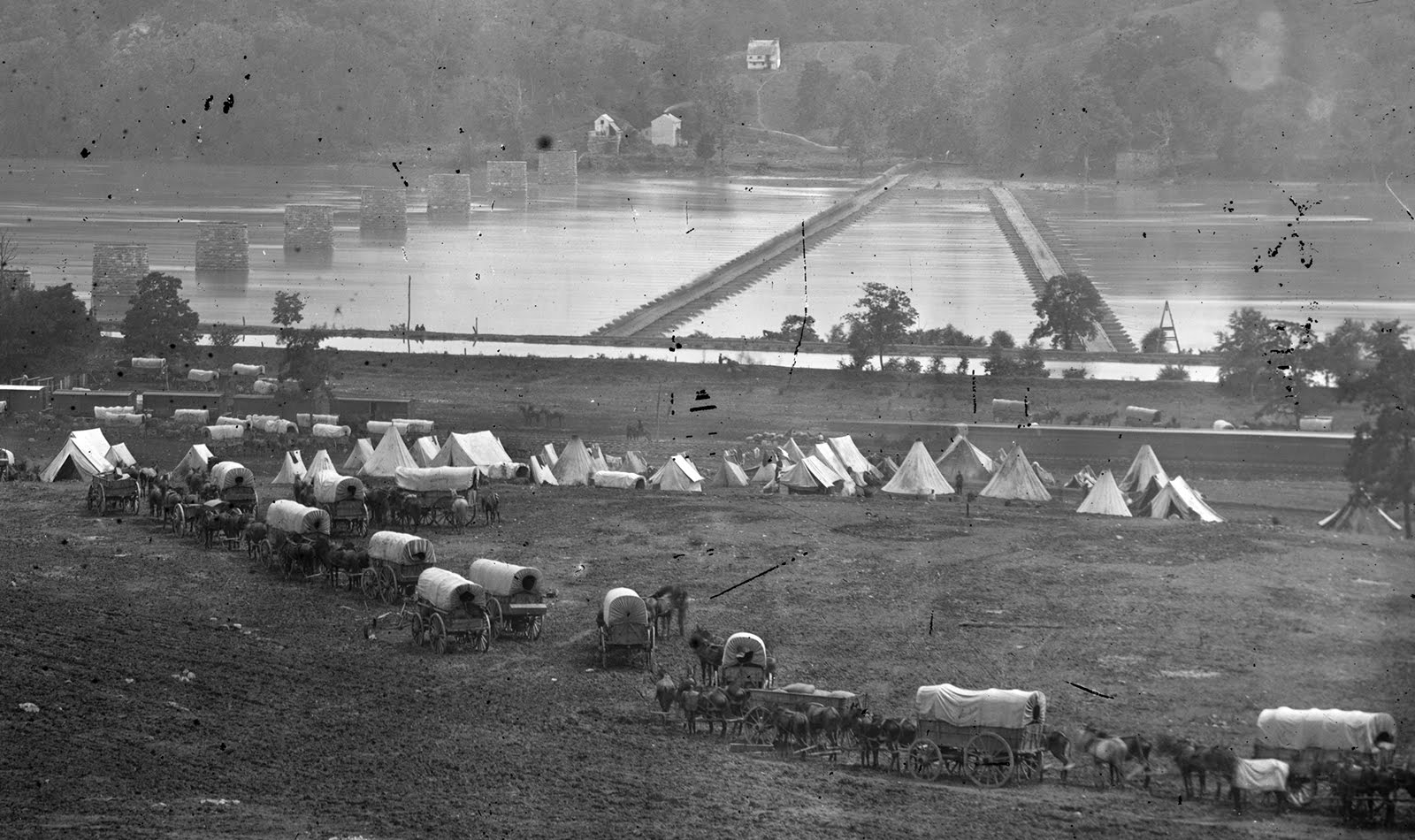 Berlin (now Brunswick), Md. Pontoon bridge and ruins of the stone bridge; Meade's pursuit of Lee after Gettysburg